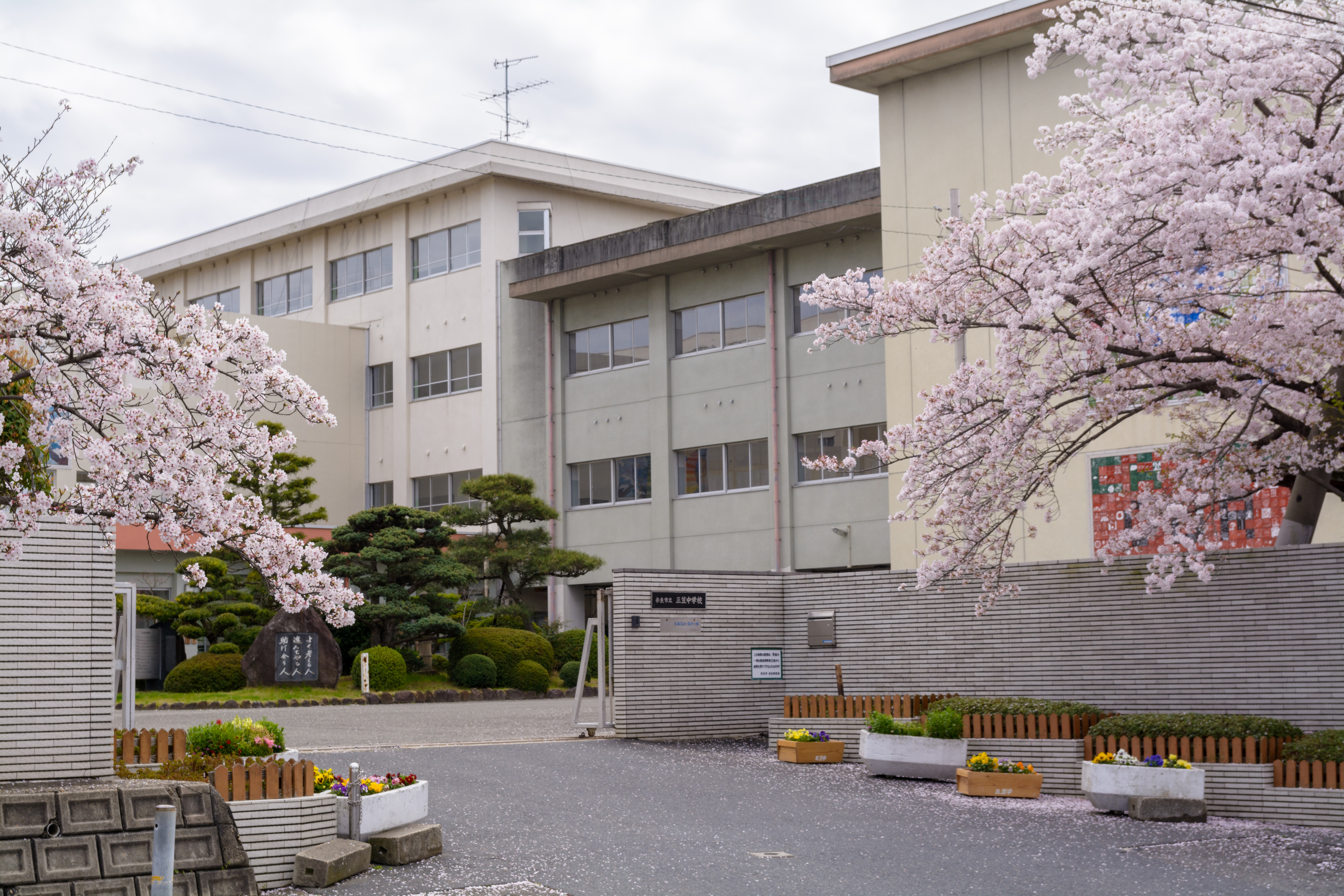 Mikasa junior high school in Nara, Nara prefecture, Japan